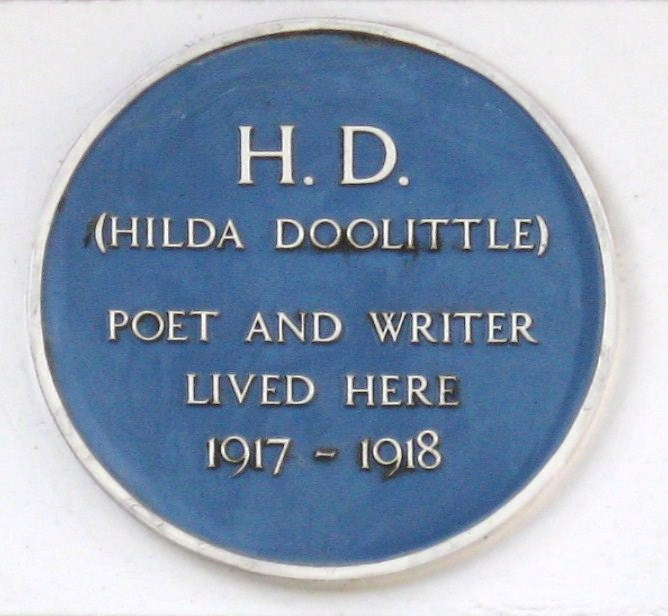 Plaque for Hilda Doolittle, 44 Mecklenburgh Square, London WC1